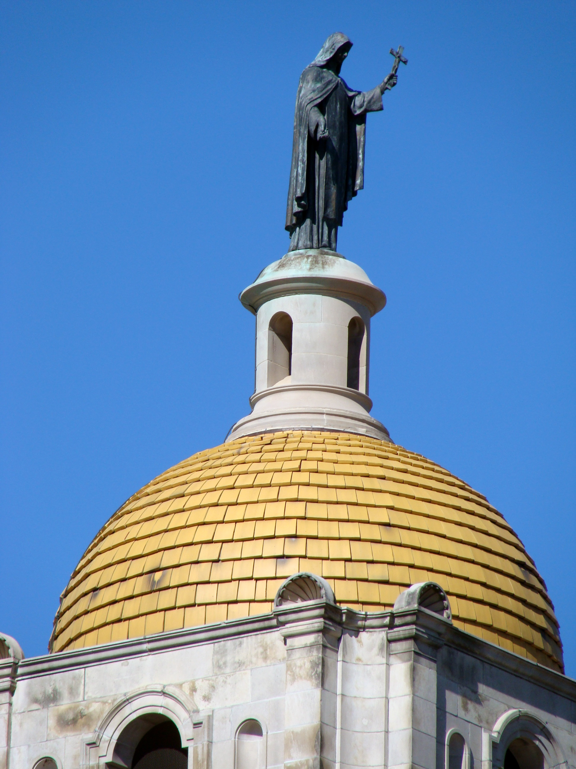 Basilica of the National Shrine of the Little Flower, San Antonio, Texas